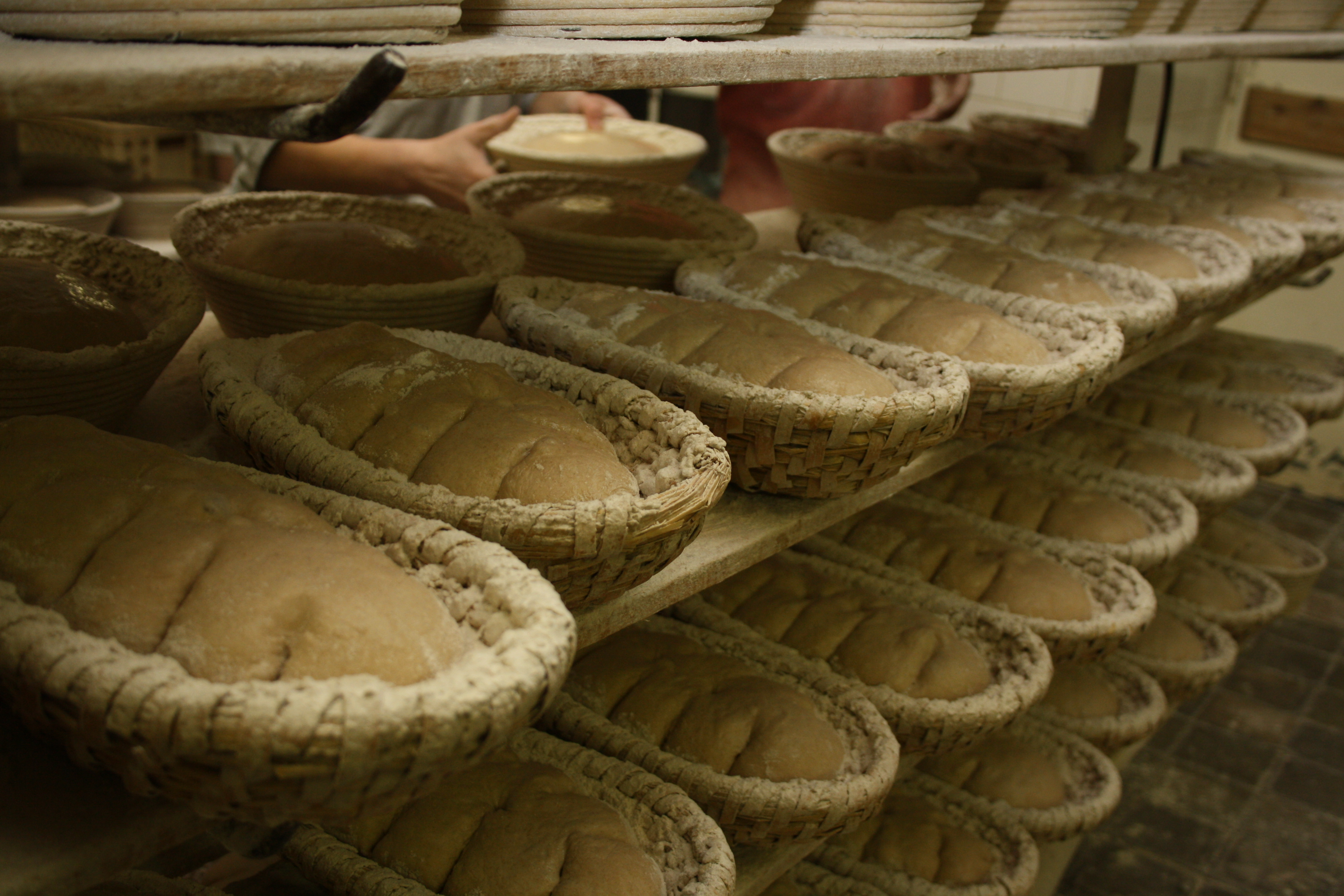 Production process of bread, Czech Republic This photograph was taken with a DSLR from WMCZ's Camera grant. This picture was taken and/or got within the scope of the 'Acquiring scientific and specialized pictures' grant.